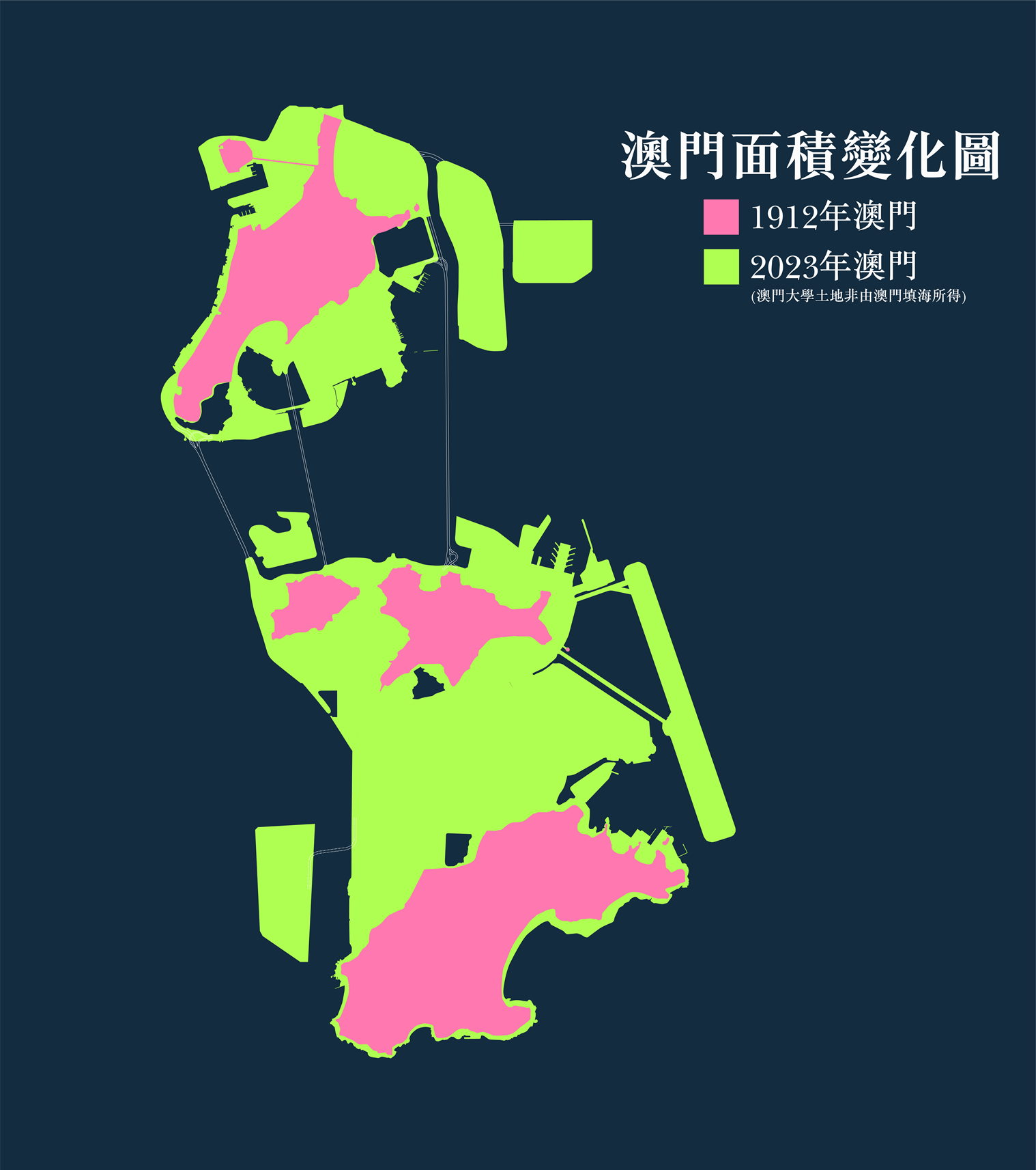 Macau Reclamation Map since 1912